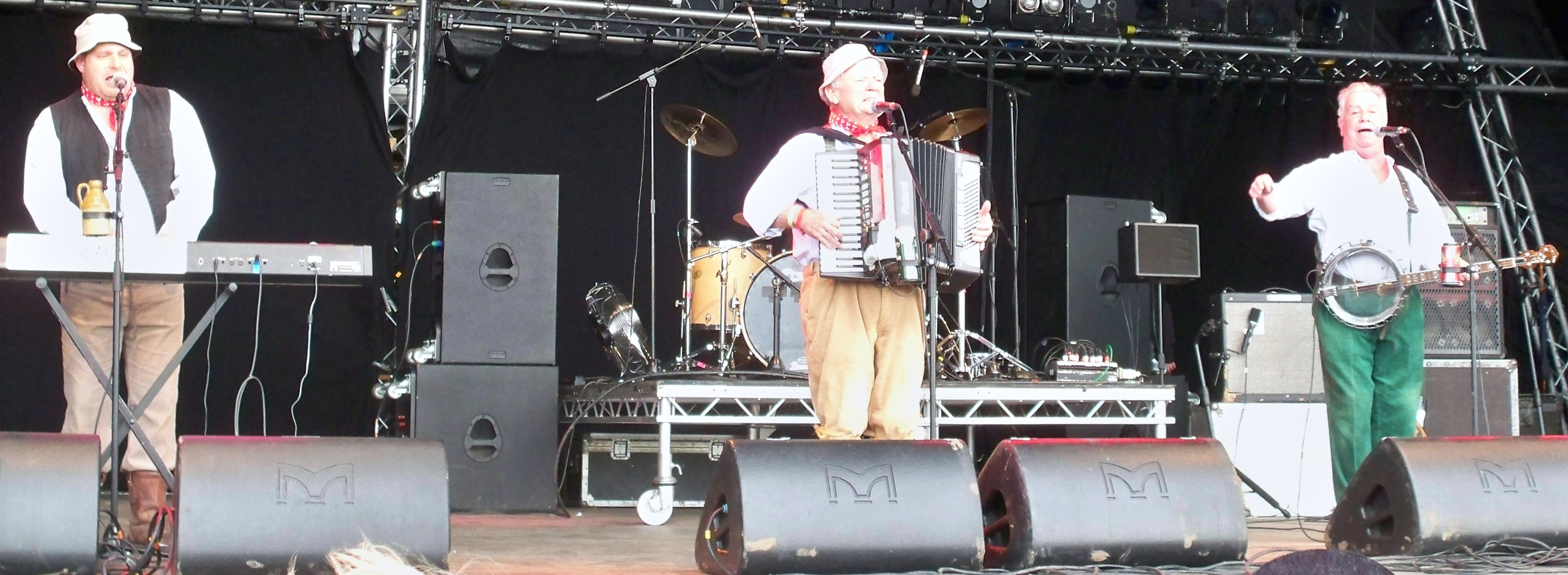 The Wurzles entertaining the Guildford crowd with their West Country charm at Guilfest 2012.